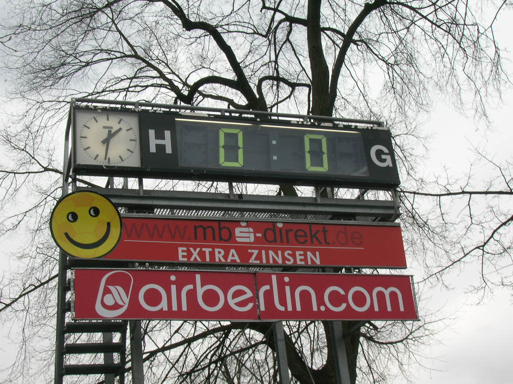 score board of the Karl-Liebknecht-Stadion